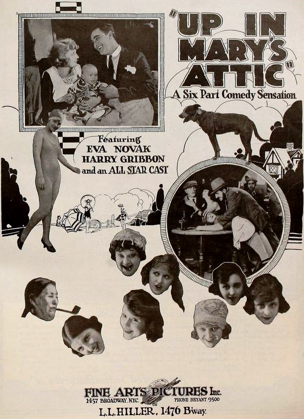 Advertisement for the American comedy film Up in Mary's Attic (1920) with Eva Novak and Harry Gribbon, on page 4755 of the June 12, 1920 Motion Picture News.